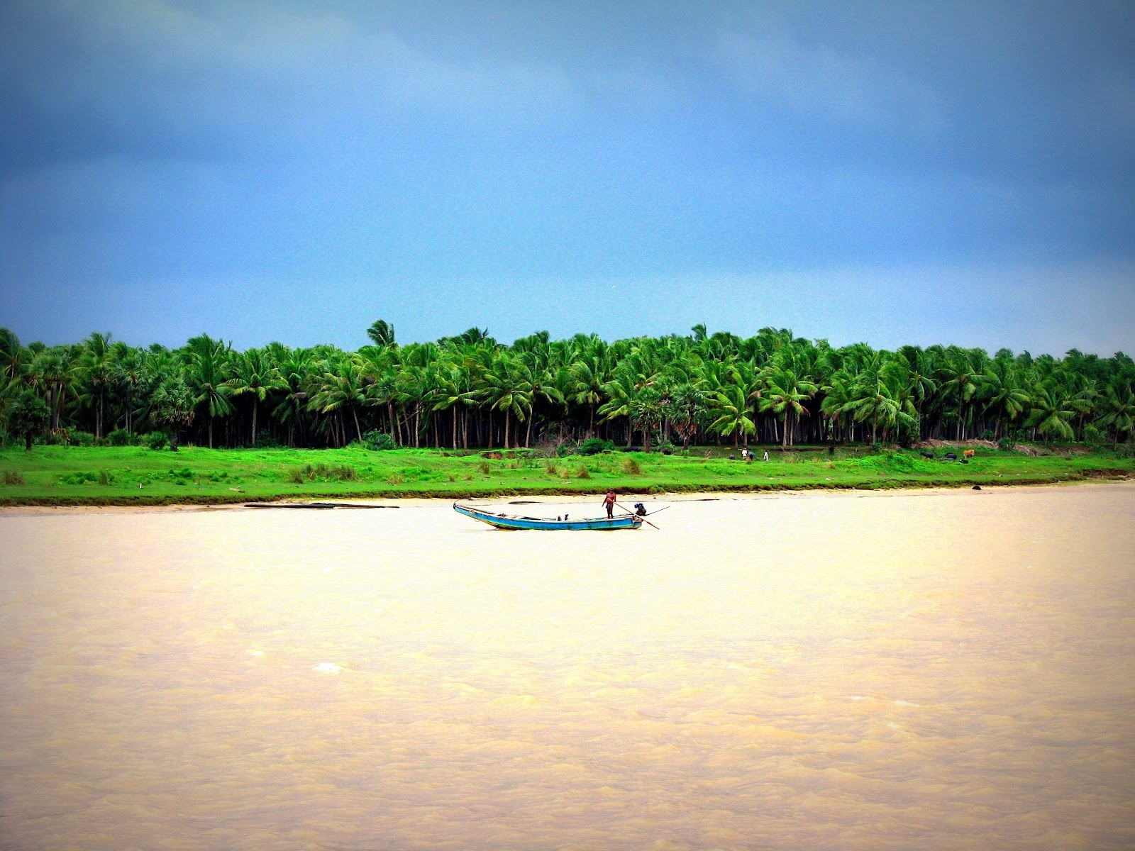 this picture indicates nature of konaseema